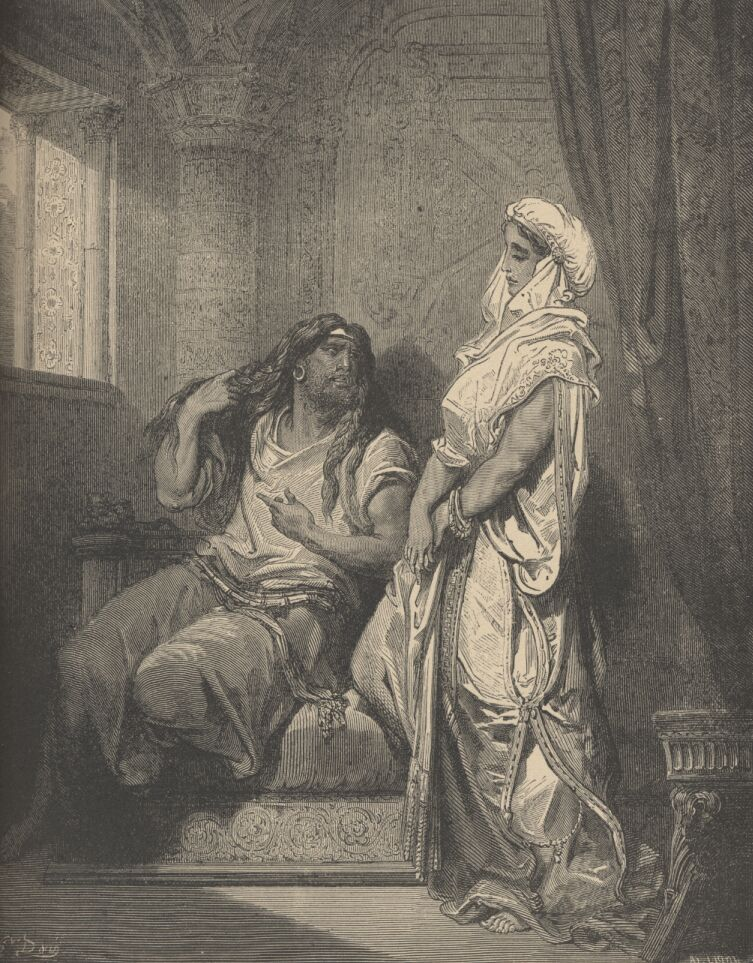 Engraving of Samson and Delilah by Gustave Dore ca. 1860